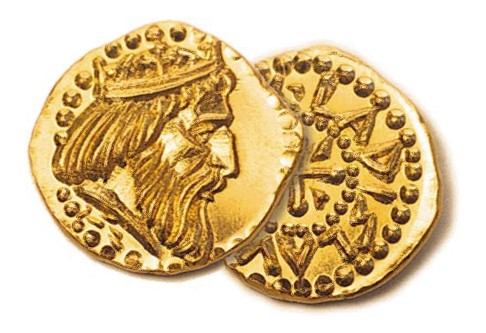 Laszlo Szlavics Jr.: Saint Ladislas, obverse-reverse, gold, struck, 21 mm, 1991. (A medal, or pseudo-coin, created by Hungarian medallist László Szlávics, jr. - see this image on his website).